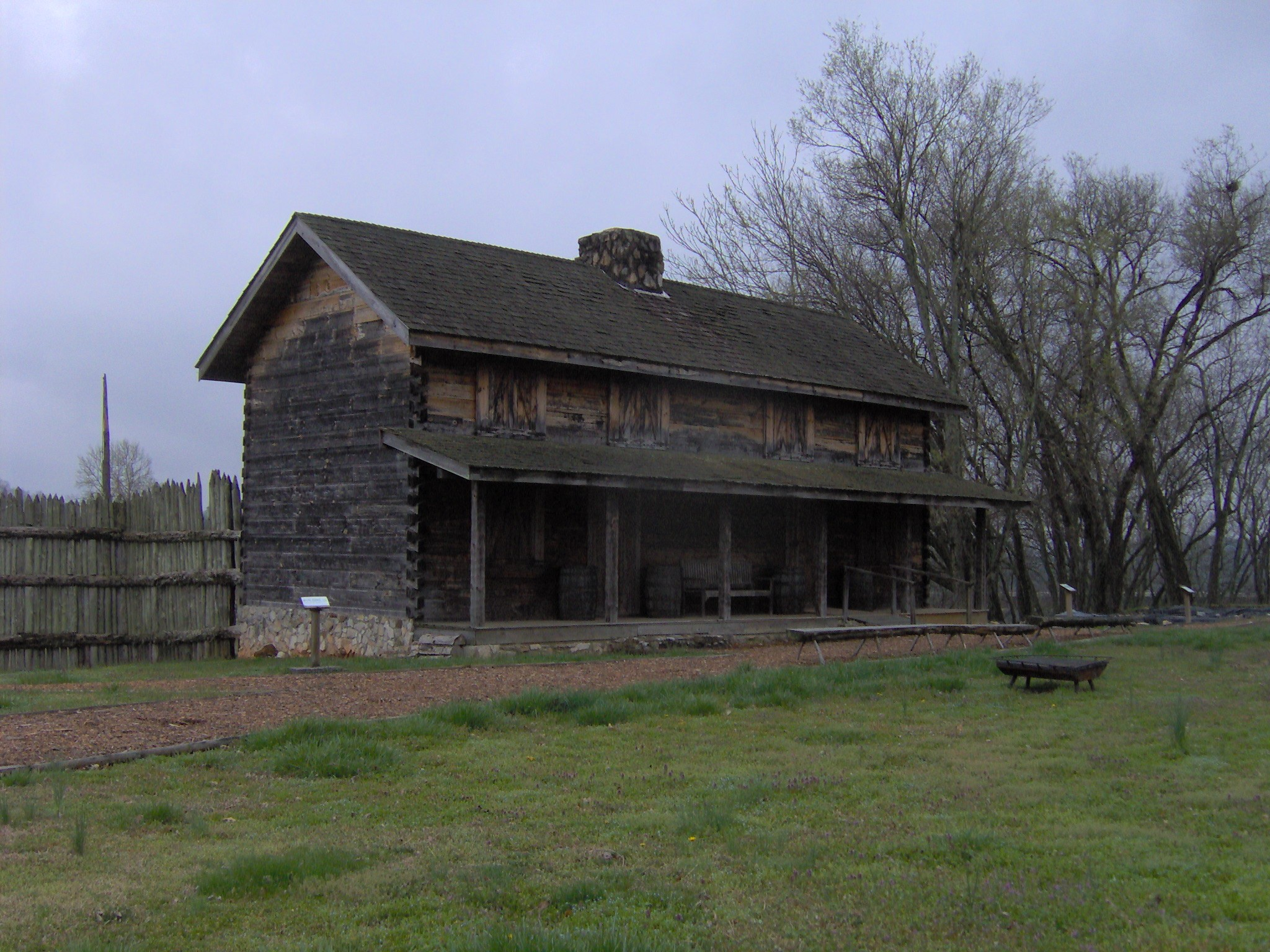 The "main gatehouse" (Structure 7) at Fort Southwest Point in Kingston, Tennessee, in the southeastern United States.